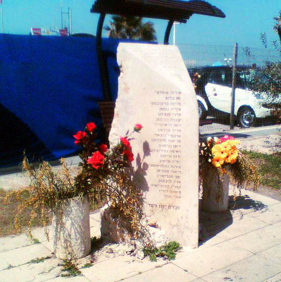 A memorial for those killed in a Palestinian a suicide attack